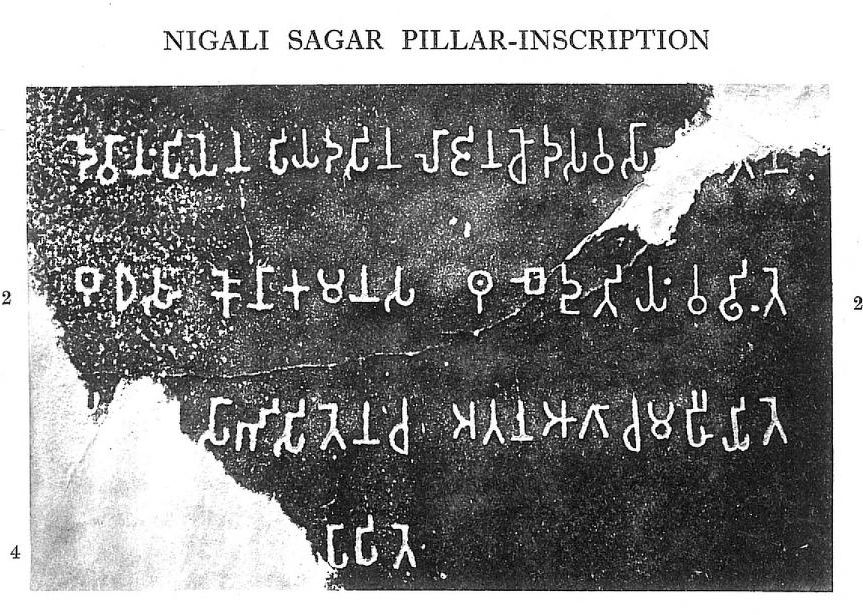 Ashoka Inscriptions Nigali Sagar pillar inscription. The inscription, made when Emperor Asoka visited the site in 249 BCE and erected the pillar, reads: Brahmi script and Pali language: "Devanam piyena piyadasin lajina- chodasavasa bhisitena Budhasa Konakamanasa thube-dutyam vadhite Visativa sabhisitena –cha atana-agacha-mahiyite silathabe-cha usa papite" English (Smith 1969): “His Majesty King Priyadarsina in the 14th year of his reign enlarged for the second time the stupa of the Buddha Kanakamuni and in the 20th year of his reign, having come in person, paid reverence and set up a stone pillar”.